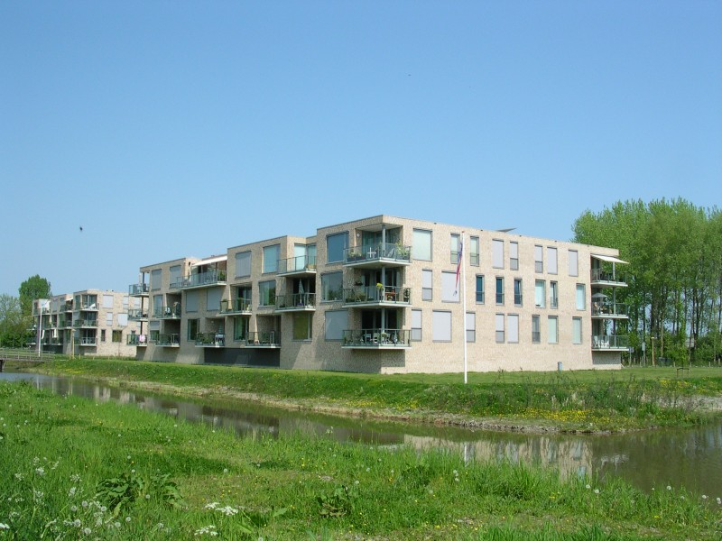 Appartement-flat in Blokker. Apartment blocks in the village of Blokker